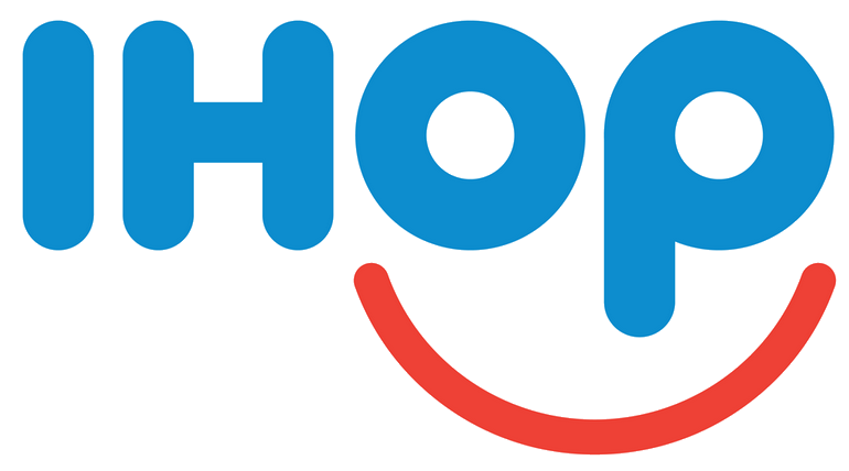 Logo of IHOP (International House of Pancakes), an United States-based restaurant chain that specializes in breakfast foods.